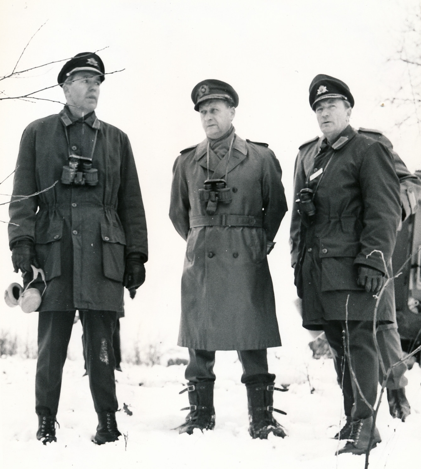 Demonstration of weapons at Härads training area for invited guests. From left: Colonel Kjell Nordström, Finnish Lieutenant General Carl Olof Lindeman and Colonel Stig Colliander.